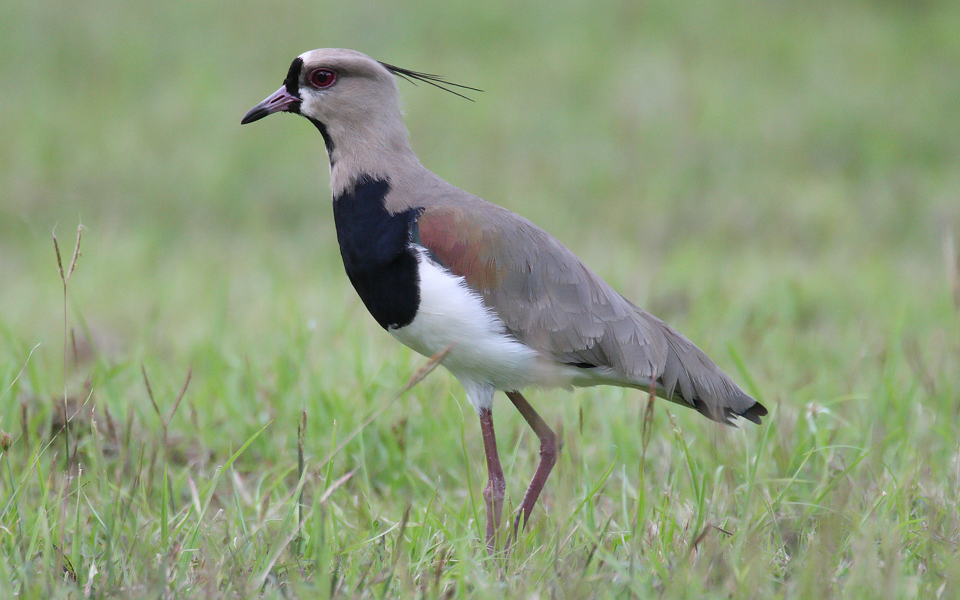 Southern Lapwing -- Gamboa, Panama -- 2008 January